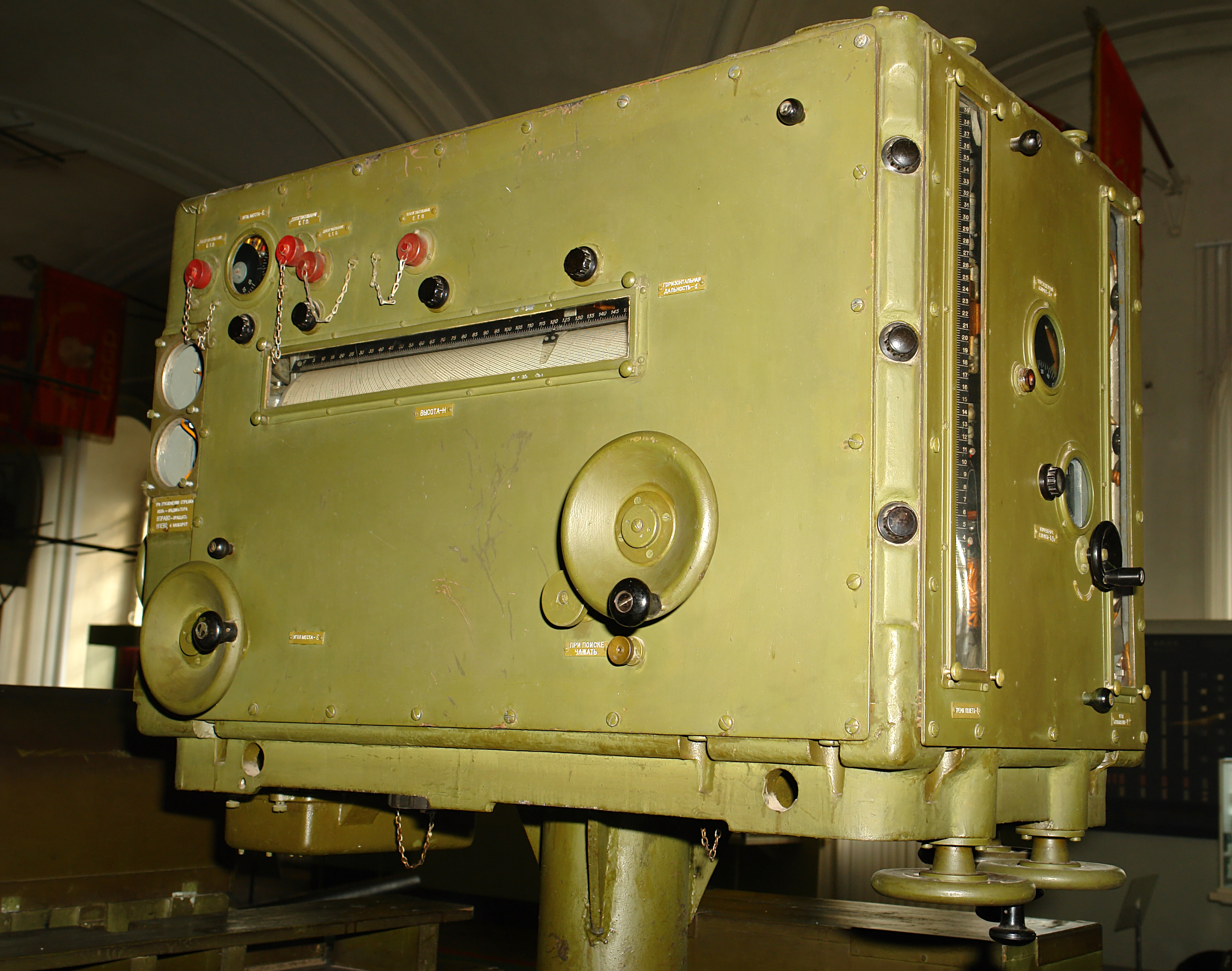 translation from the German entry: The controller for anti-aircraft artillery. Designed to transform data received from the synchronous communication with a range finder or radar, and send it as aiming information to a flak weapon.